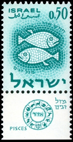 Zodiac I stamp - 0.50 Israeli lira - Sign of Pisces, Month of Adar